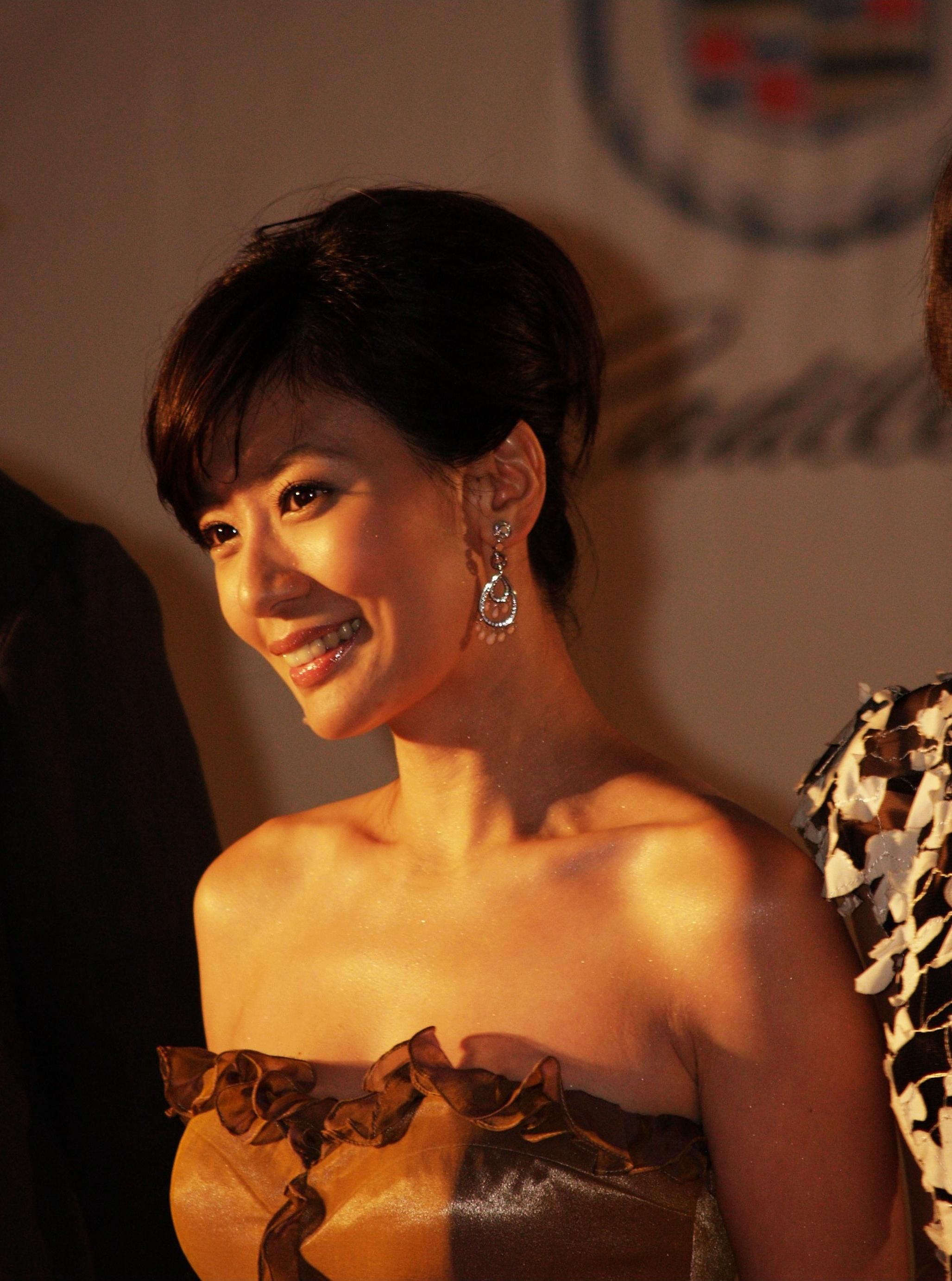 Alyssa Chia